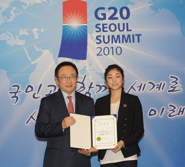 Kim Yu-na, reigning world figure skating champion, has been chosen as ambassadors to represent the G20 Seoul Summit.